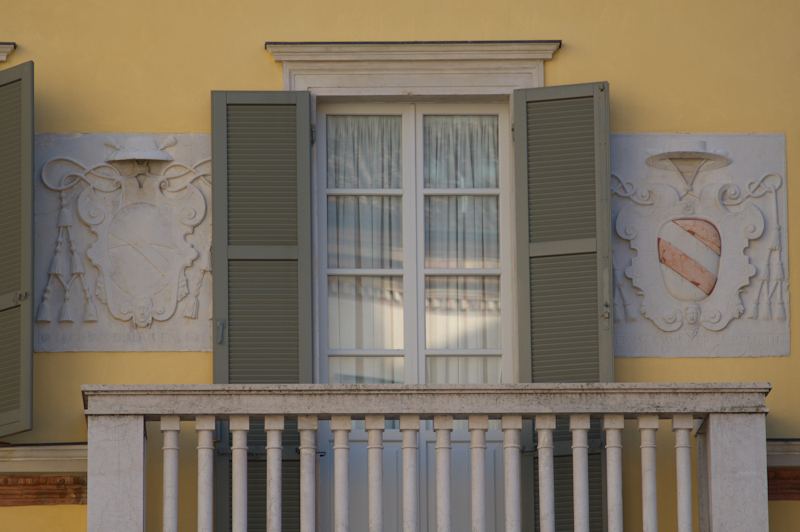 The balcony of the Episcopal palace of Crema (Italy) and the coats of arms of the bishops Gian Giacomo Diedo and Pietro Emo